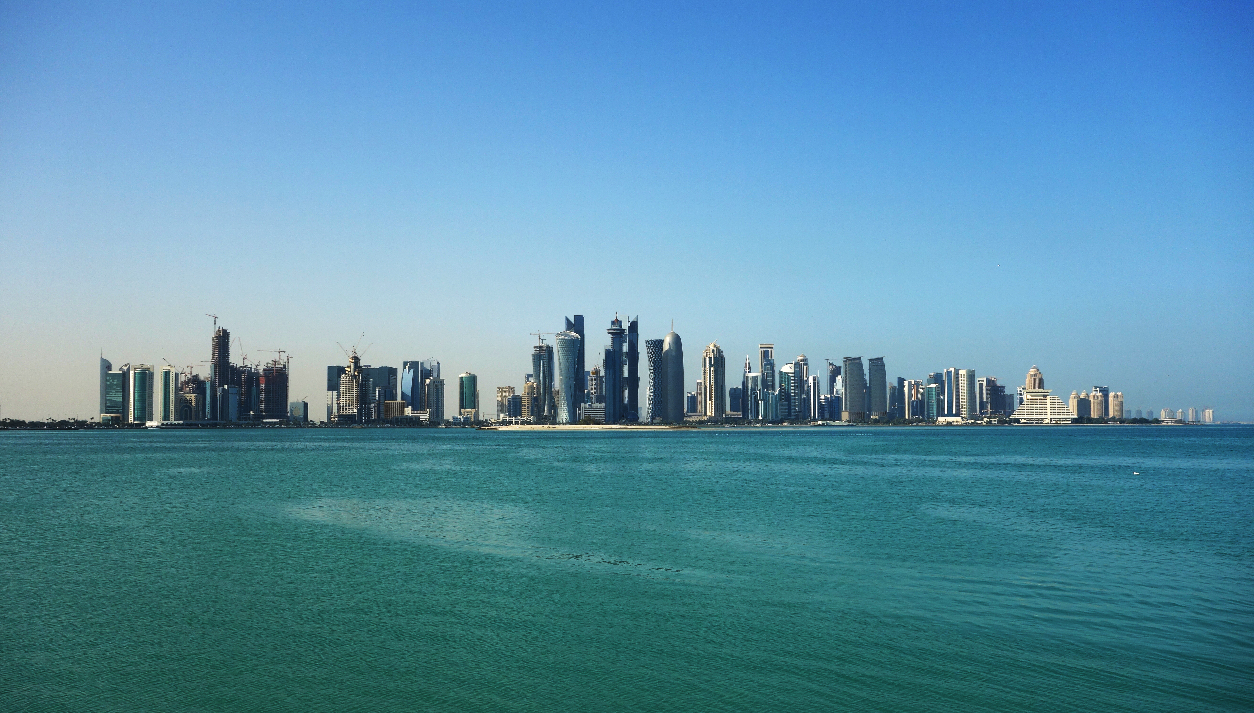 Doha skyline